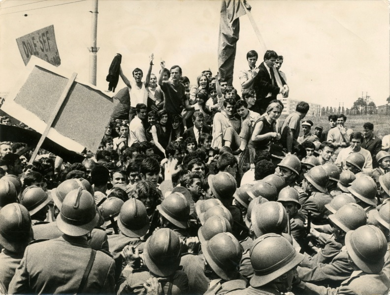 Student protests were held in Belgrade, Yugoslavia, as the first mass protest in Yugoslavia after the Second World War.